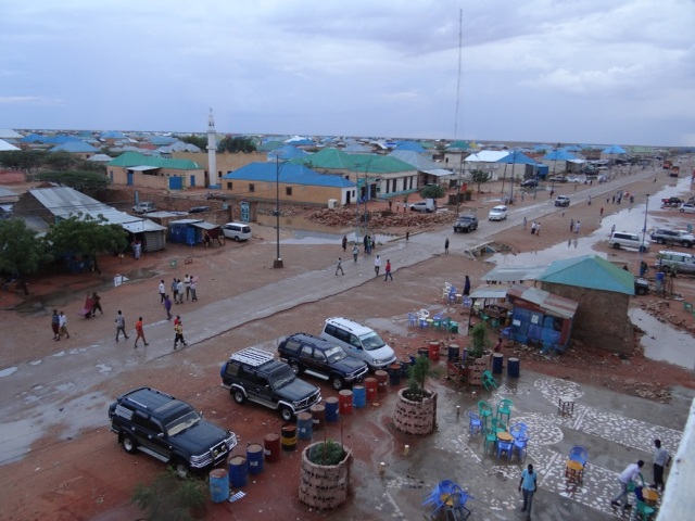 h